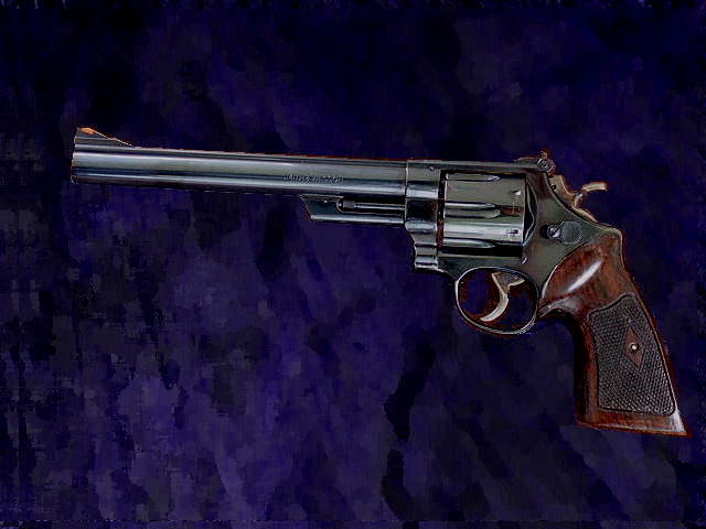 8 3/8 inch barrel 29-2